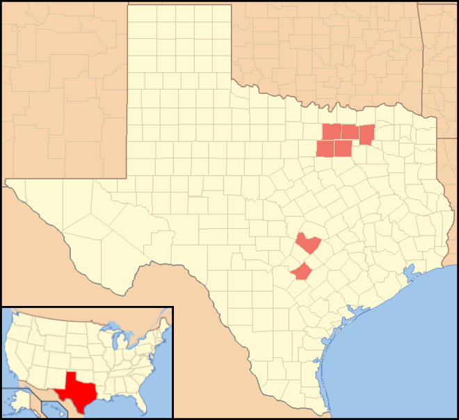 The distribution of the fungus Chorioactis geaster in Texas. Counties include Collin, Dallas, Denton, Guadalupe, Hunt and Tarrent.